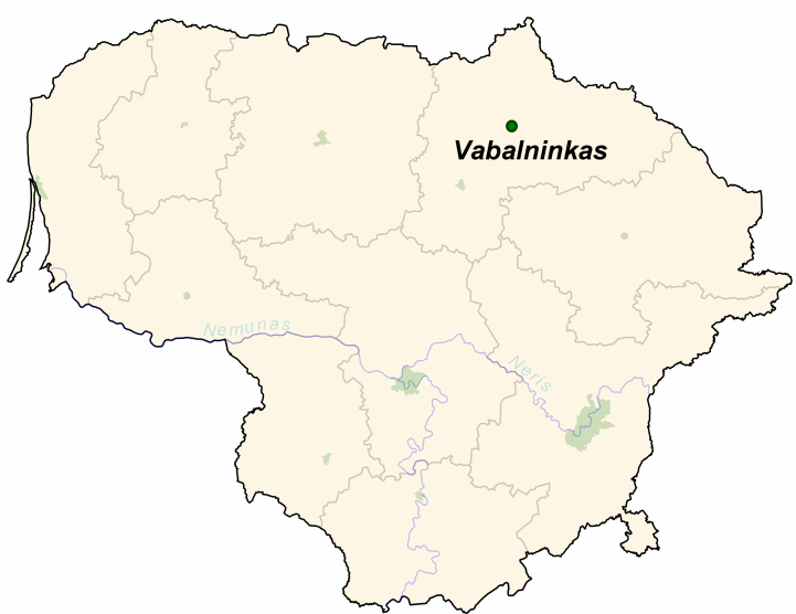 Vabalninkas on the map of Lithuania